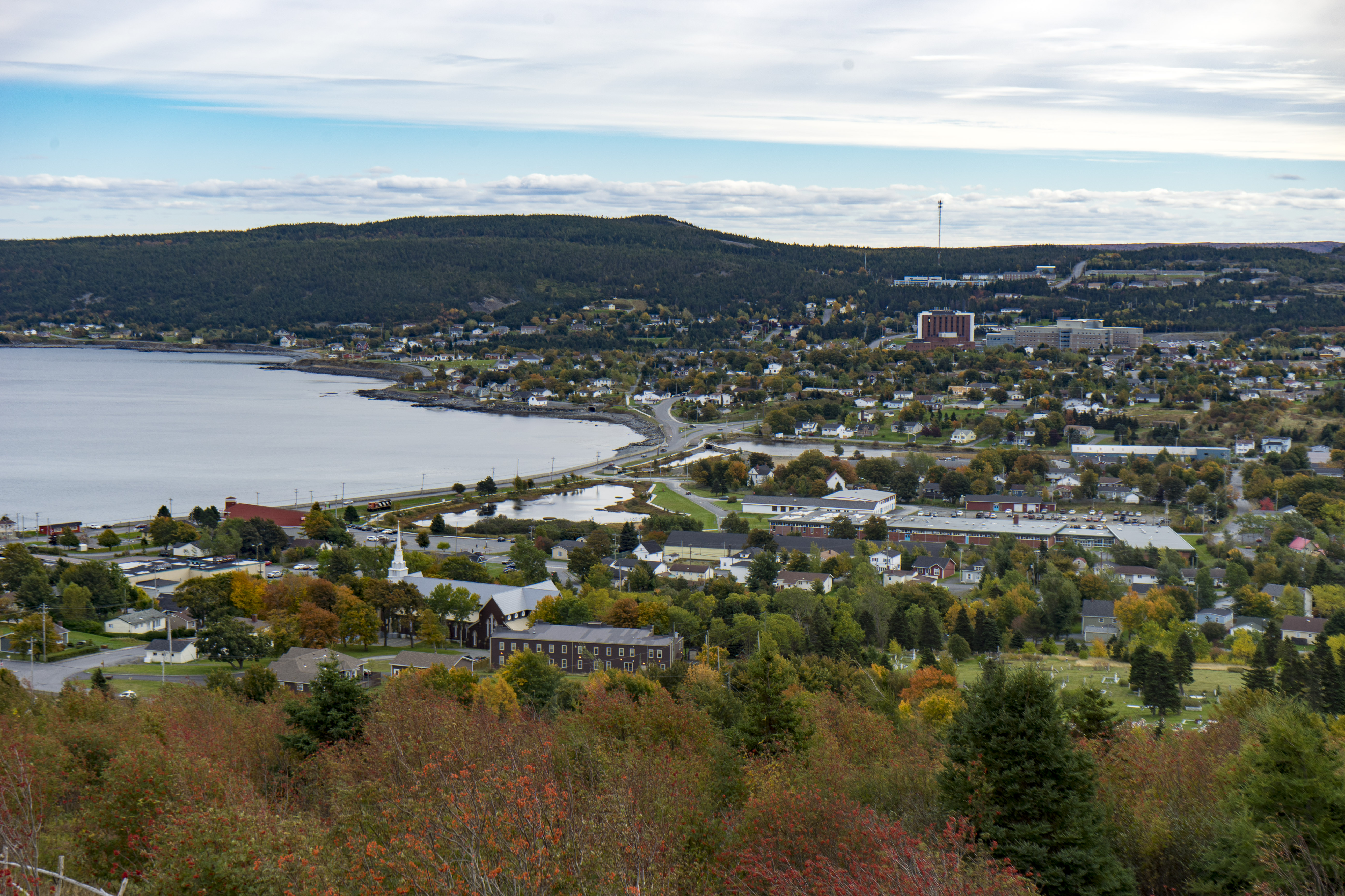 The Town of Carbonear, view from the lookout.